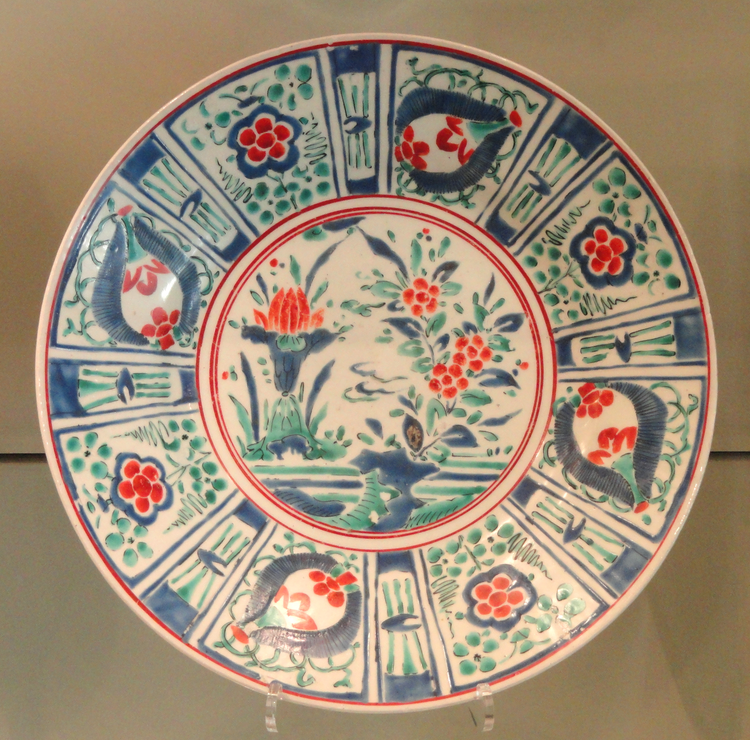 Exhibit in the Gardiner Museum, Toronto, Ontario, Canada. This artwork is in the public domain because the artist died more than 70 years ago.